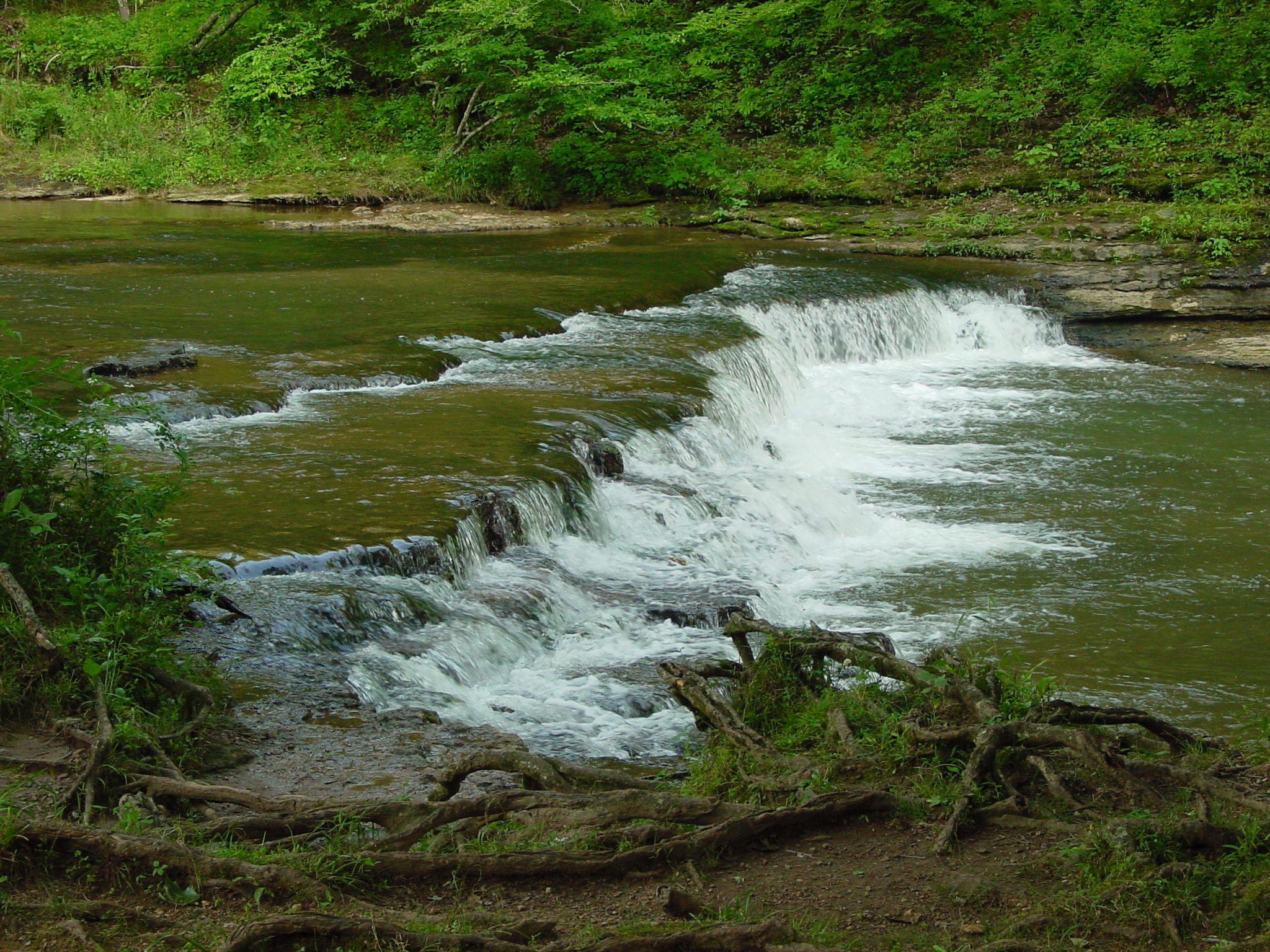 Crockett Falls in David Crockett State Park, located a half mile west of Lawrenceburg, Tennessee.